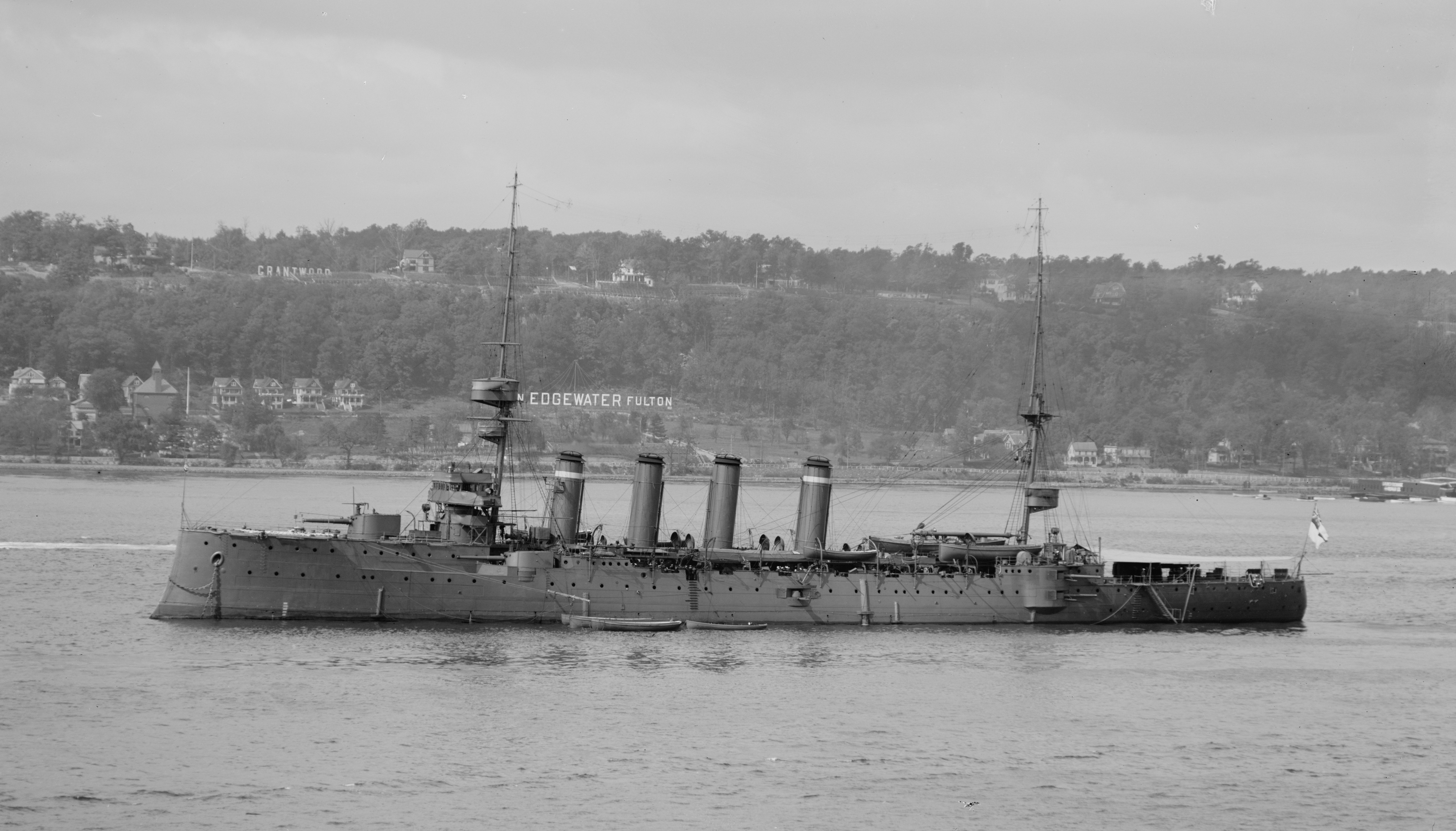 British cruiser HMS Argyll.